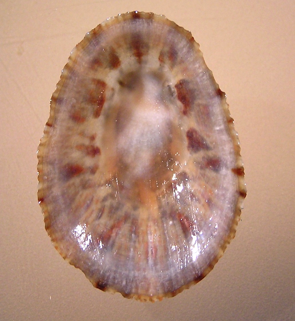 Cellana toreuma (Reeve, 1855), a limpet from the family Nacellidae; Japan